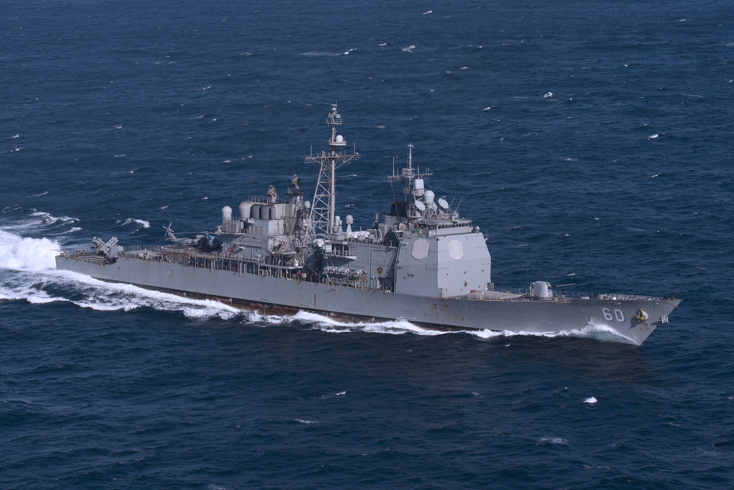 The U.S. Navy guided-missile cruiser USS Normandy (CG-60) underway in the Atlantic Ocean on 16 February 2018 as part of the Harry S. Truman Carrier Strike Group (HSTCSG) while conducting its composite training unit exercise (COMPTUEX). USS Normandy was underway for composite training unit exercise (COMPTUEX), which evaluated the strike group's ability as a whole to carry out sustained combat operations from the sea, ultimately certifying the Harry S. Truman Carrier Strike Group for deployment.